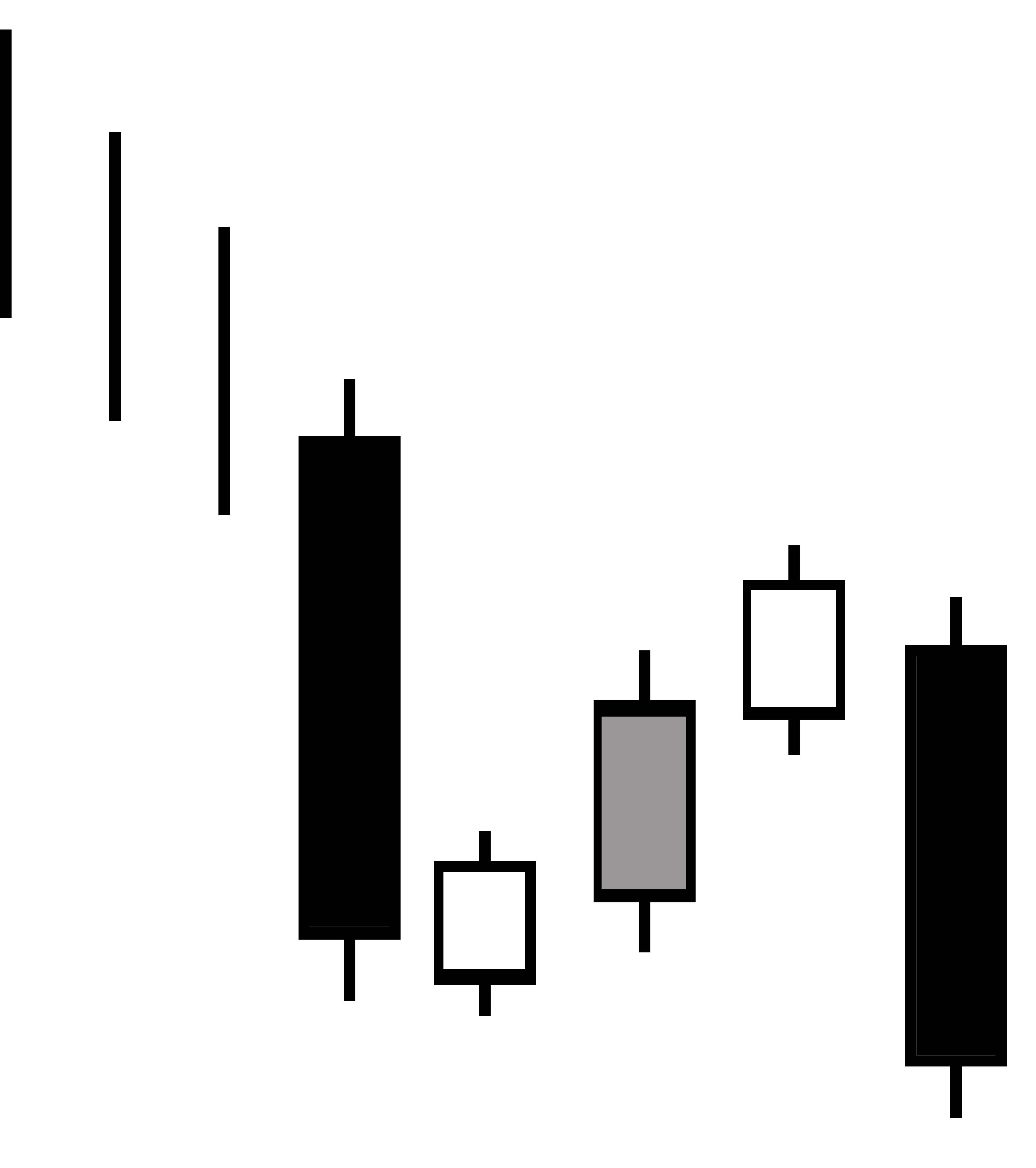 bearish Falling Three Methods